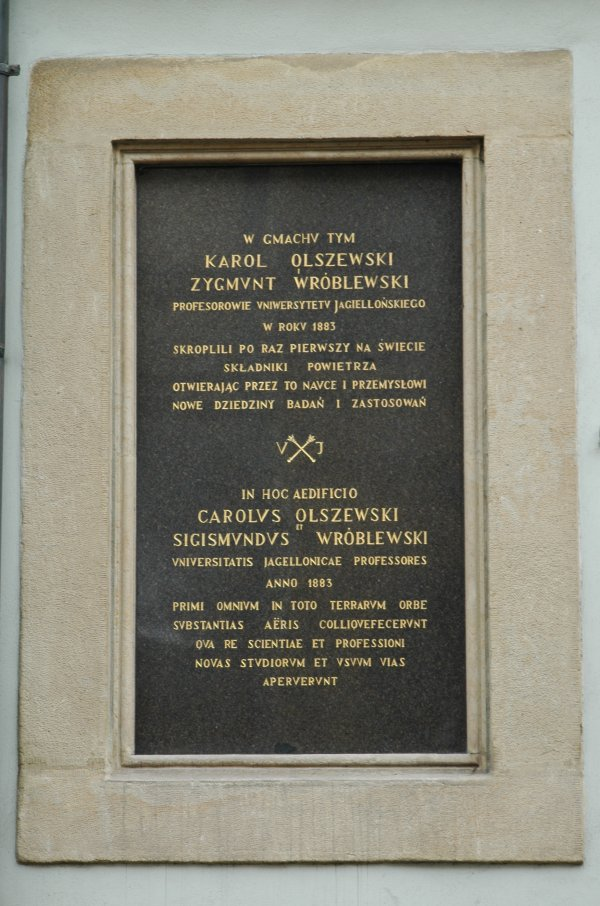 Memorial plaque to Olszewski and Wroblewski, the first people to liquify Oxygen